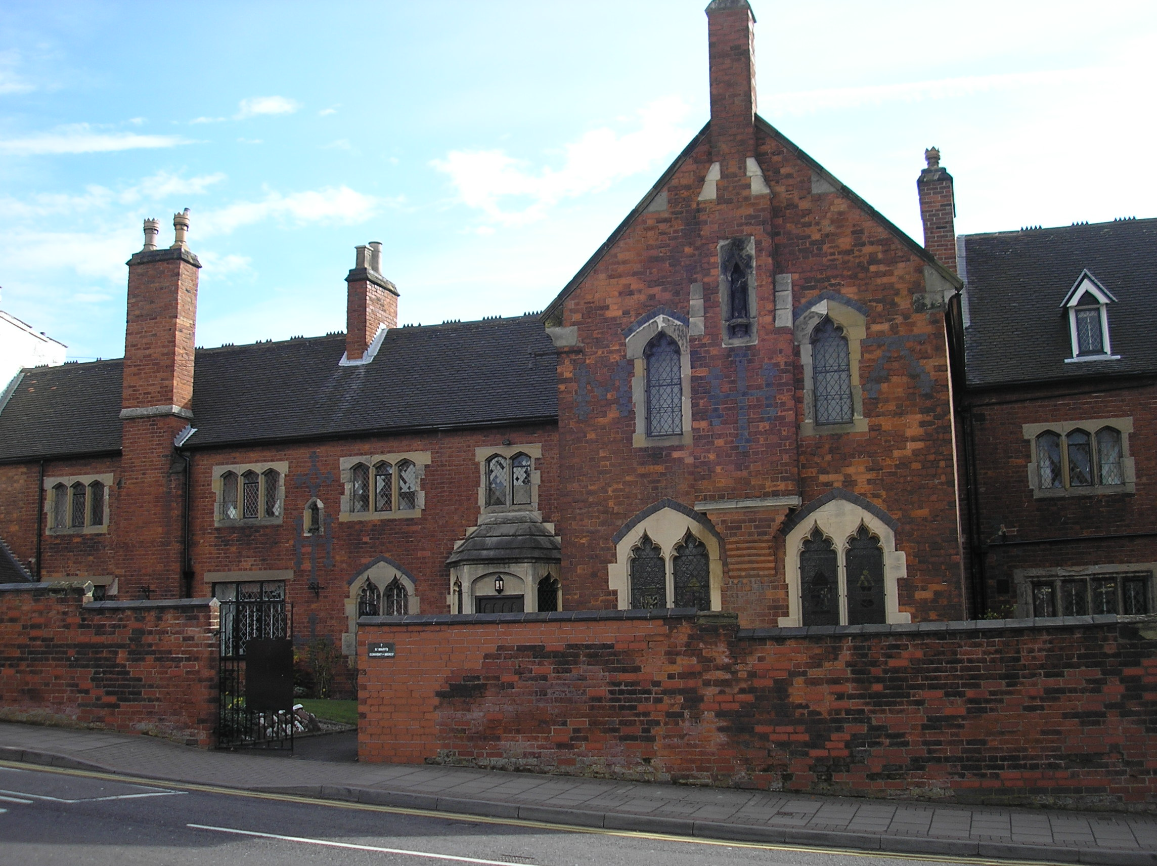 Photo of St Mary Convent, Lozells